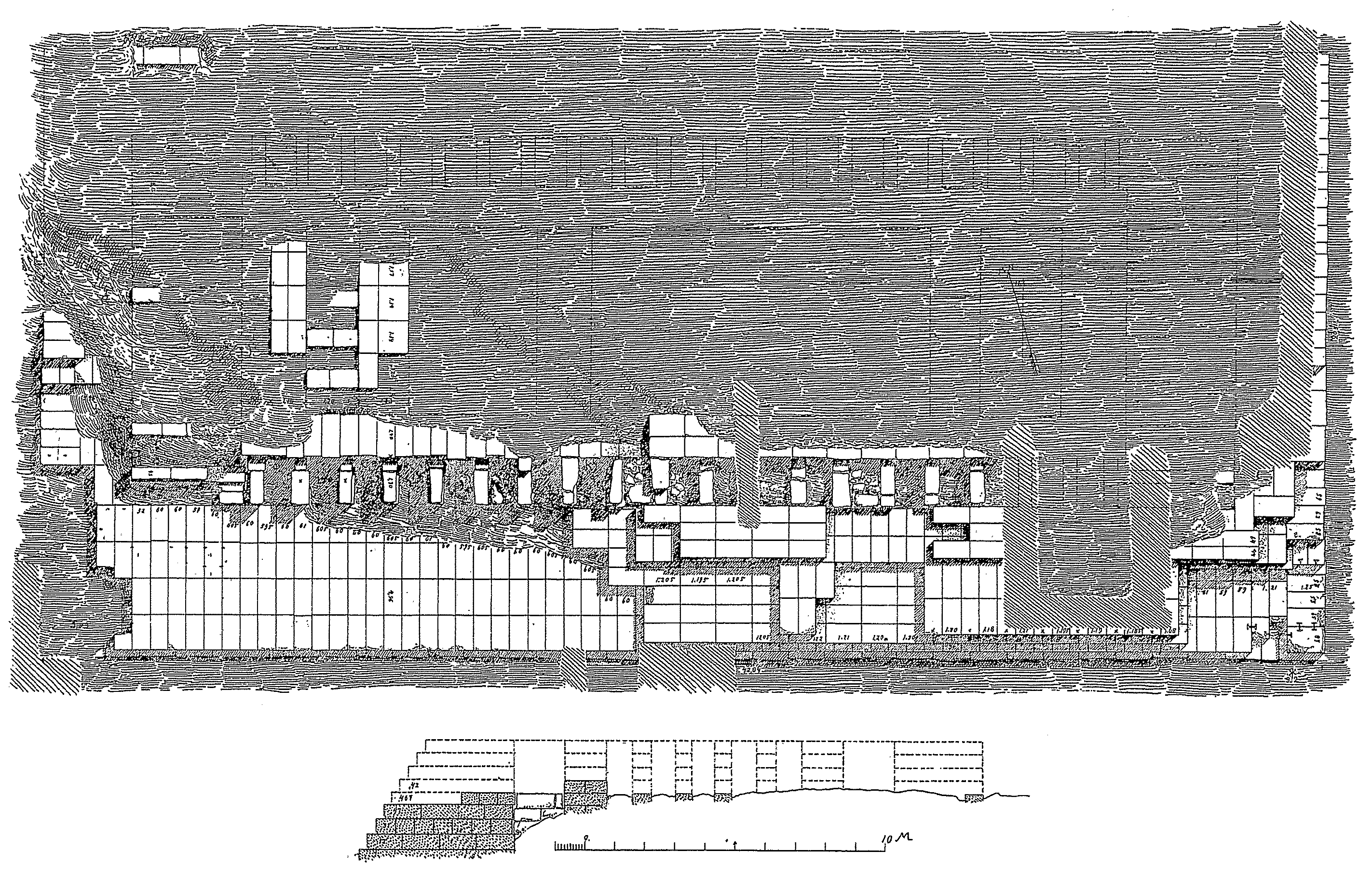 Temple O in Selinunte.